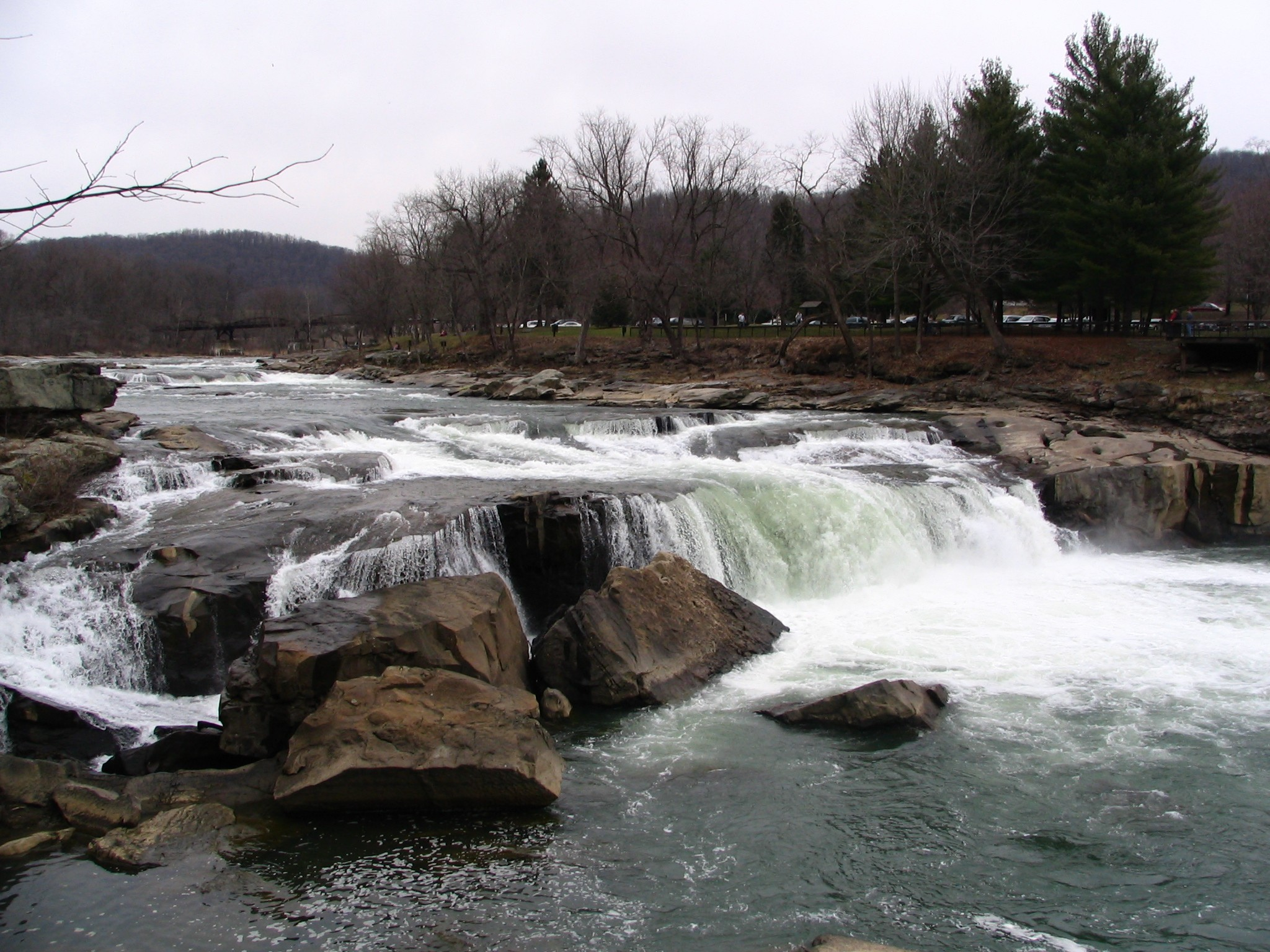 Ohiopyle, PA. Main Waterfall. Clinton N. Godleky. From personal collection.